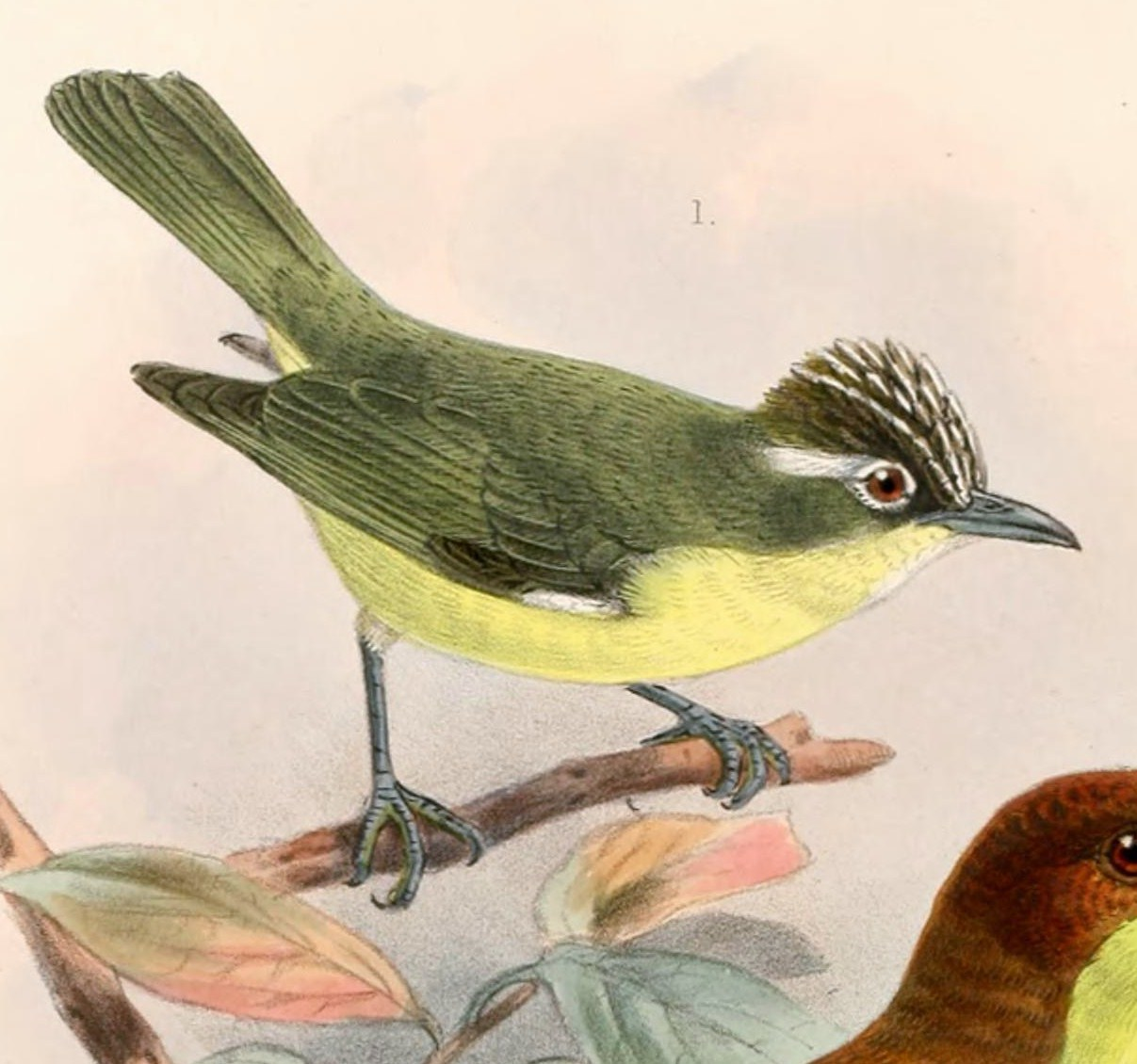 « Lophozosterops dohertyi » = Lophozosterops dohertyi (Crested Ibon)